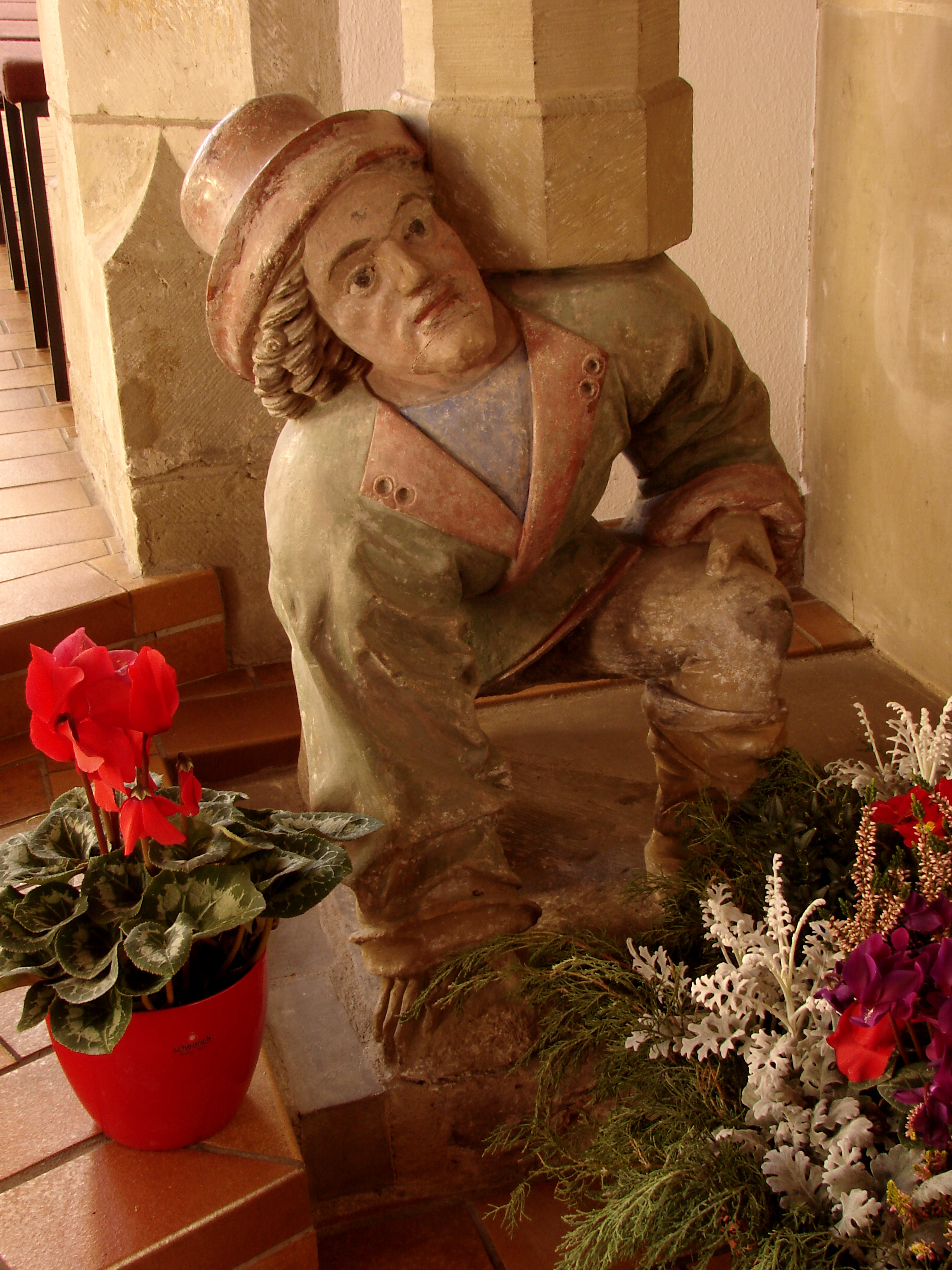 Freiberg am Neckar, church of Simon and Judas, chancel supporter, a work by Anton Pilgram